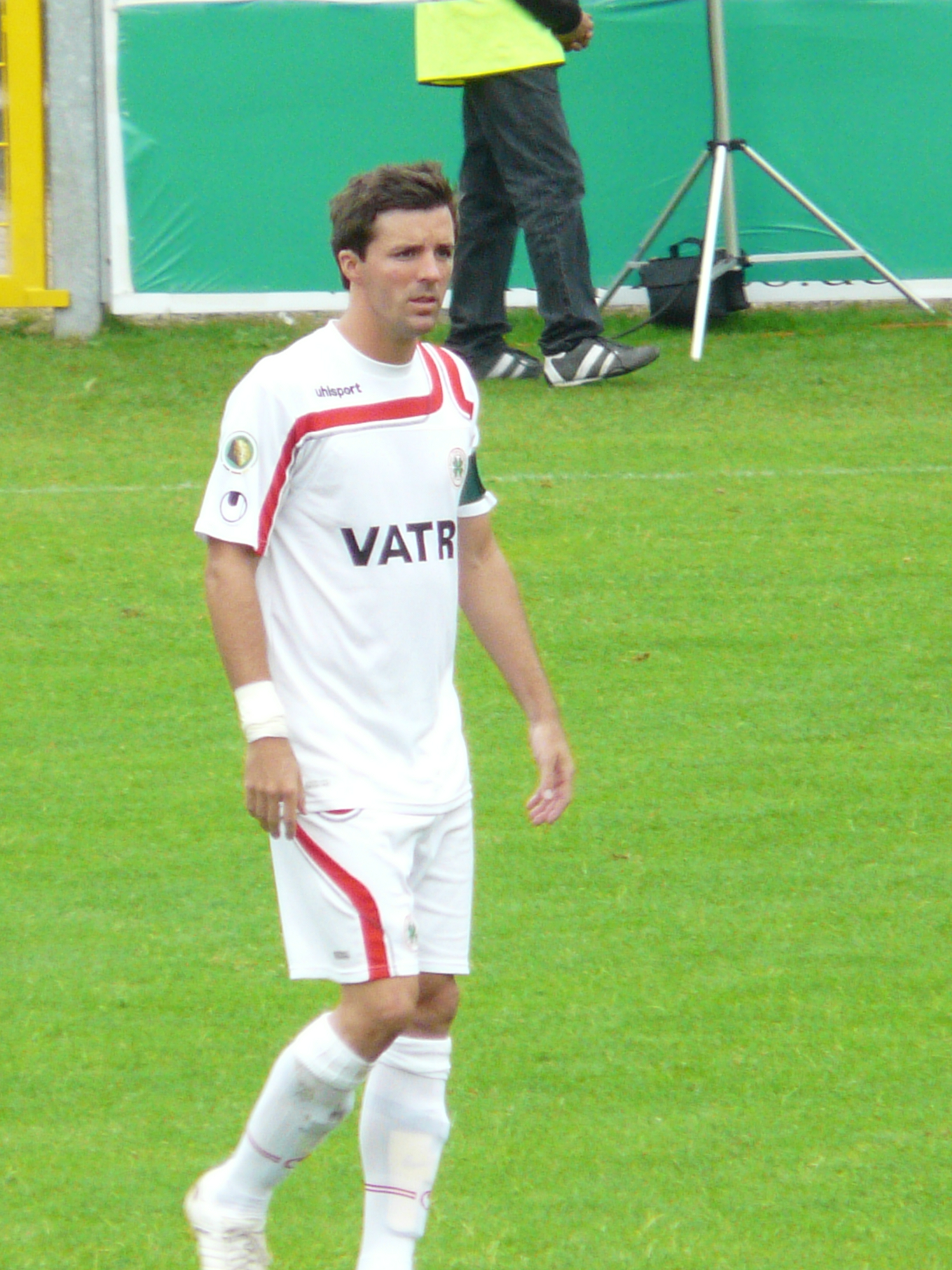 Benjamin Reichert as Player from RW Oberhausen